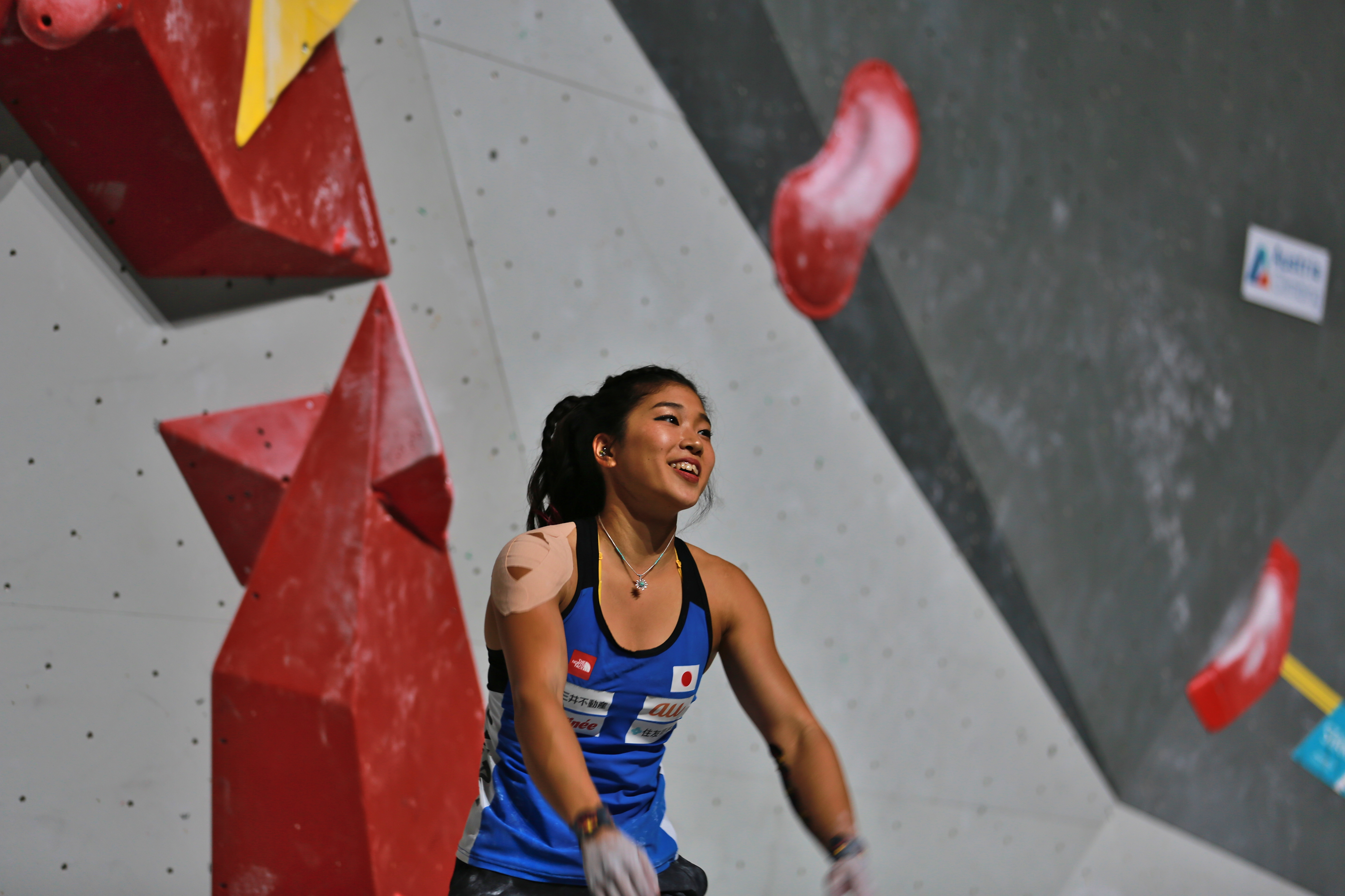 Climbing World Championships 2018 Boulder Final Nonaka